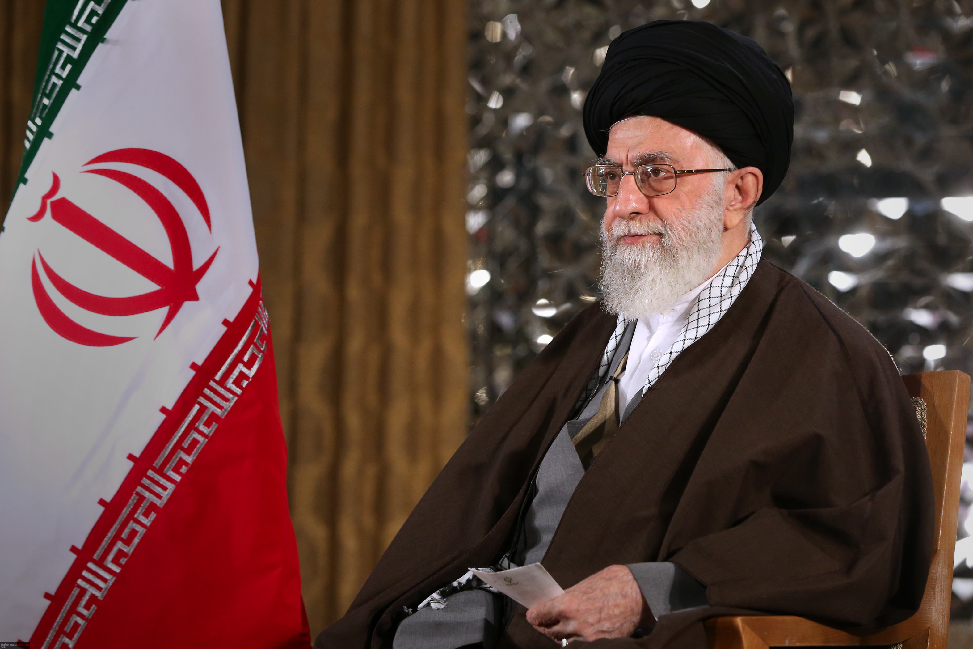 Supreme Leader, Ali Khamenei delivers Nowruz message in his office